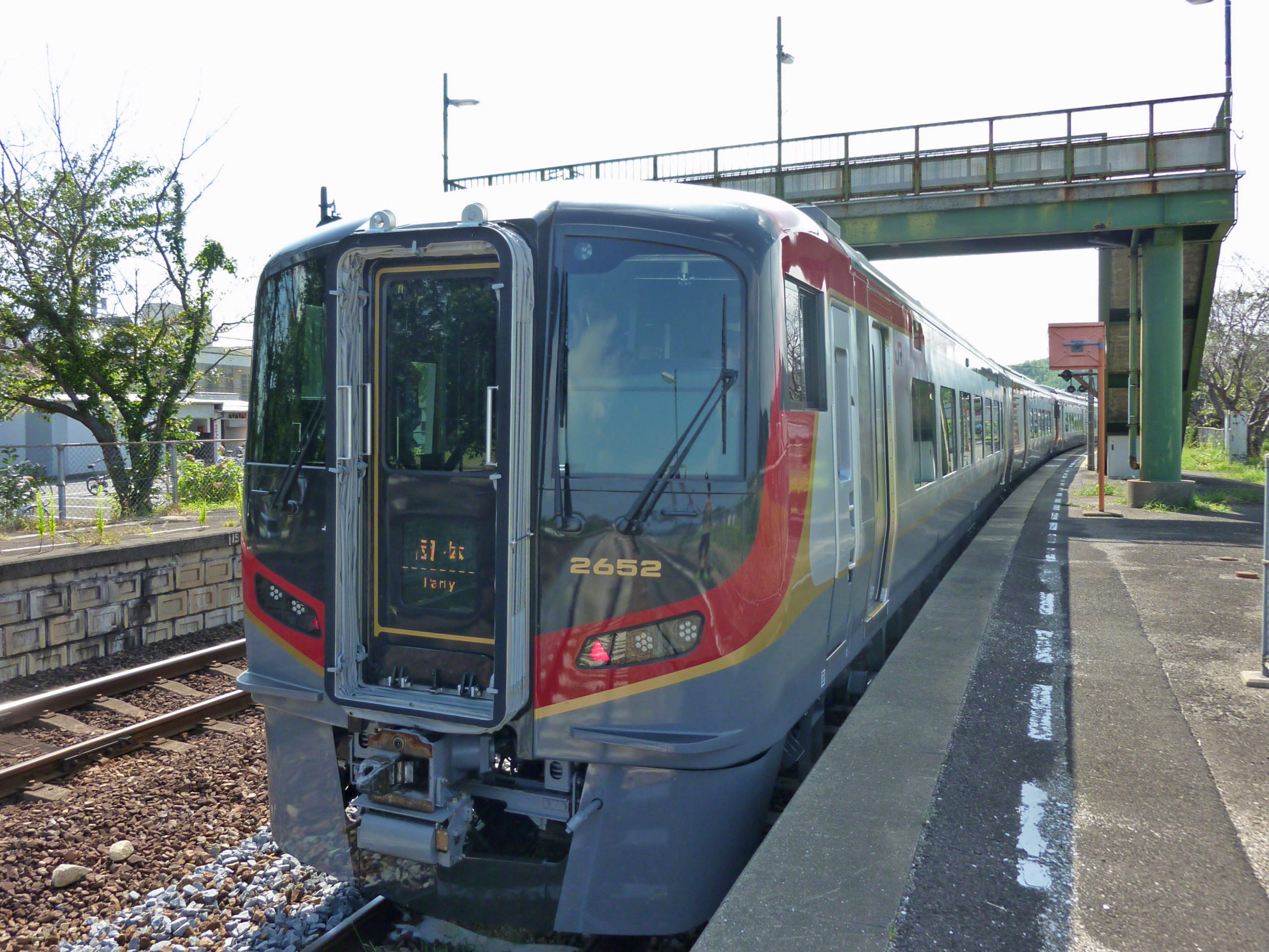 JR Shikoku 2600 series DMU sets 2602 and 2601 at Zoda Station on a special tour service